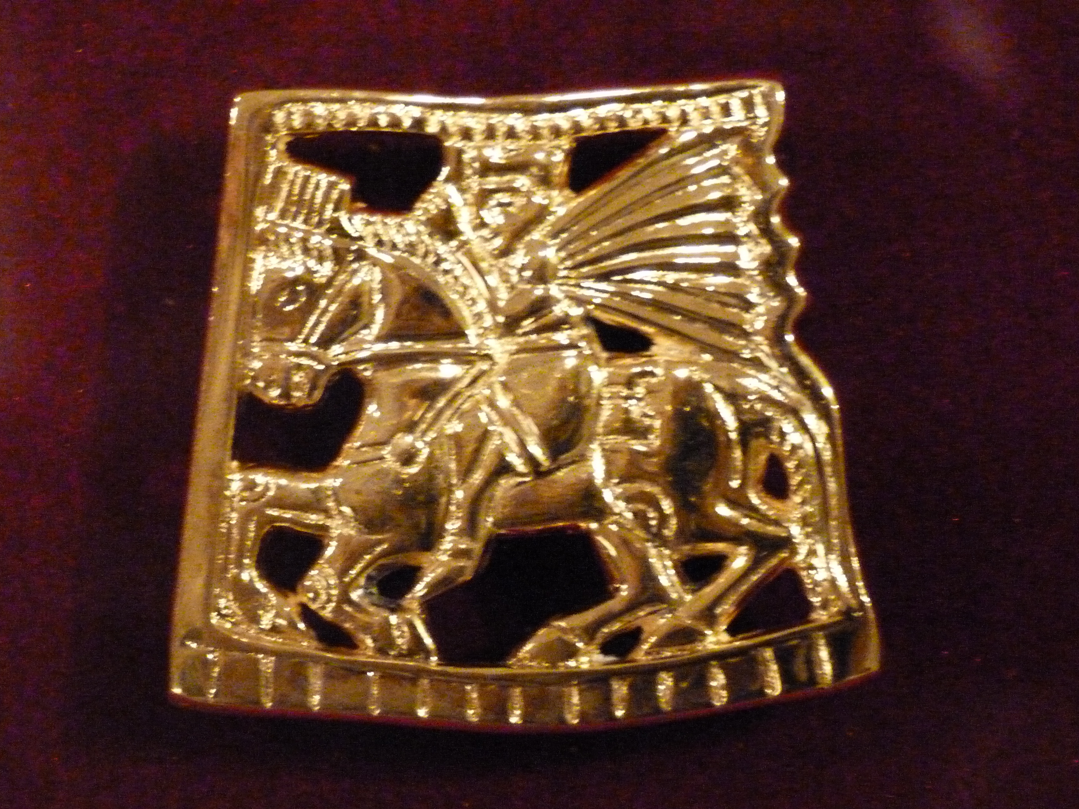 Empire of the Sun. Scytians ! Great, honorable men ! Remember the beginning of your way ! Live on the 13th of November, 2012, Budapest, VAM Design Center. Published under Creative Commons in the Metapolisz DVD line. All of the photos and vids in the Metapolisz DVD line are under Creative Commons and can be used even for commercial - for profit - purposes. Recommended citation: Derzsi Elekes Andor: Metapolisz DVD line Sources: Сенсационной называют свою находку археологи, обнаружившие в Карагандинской области «золотого человека» Sun emperor File:Sun_emperor.JPG Még mindig tagadnunk kell? Szkíta „aranyembert” találtak a kazah régészek A szkíta Napherceg Szkíta kincsekből nyílik egyedülálló kiállítás Budapesten: Badinyi-Jós Ferenc :a tatárlakai korong szövegének megfejtése: „Oltalmazónk! Minden titok dicső Nagyasszonya! Vigyázó két szemed óvjon, Napatyánk fényében!” Szathmáry megfejtése: „Egyetlen, magasztos Teljességünk leáldozóban, de Fény atyánk arca felemelkedik, ismét felragyog, s betölti dicsőségét!”